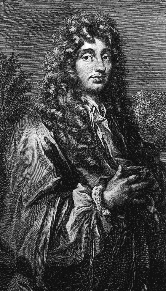 Christiaan Huygens, 1629-1695, Dutch mathematician, astronomer and Science Fiction writer